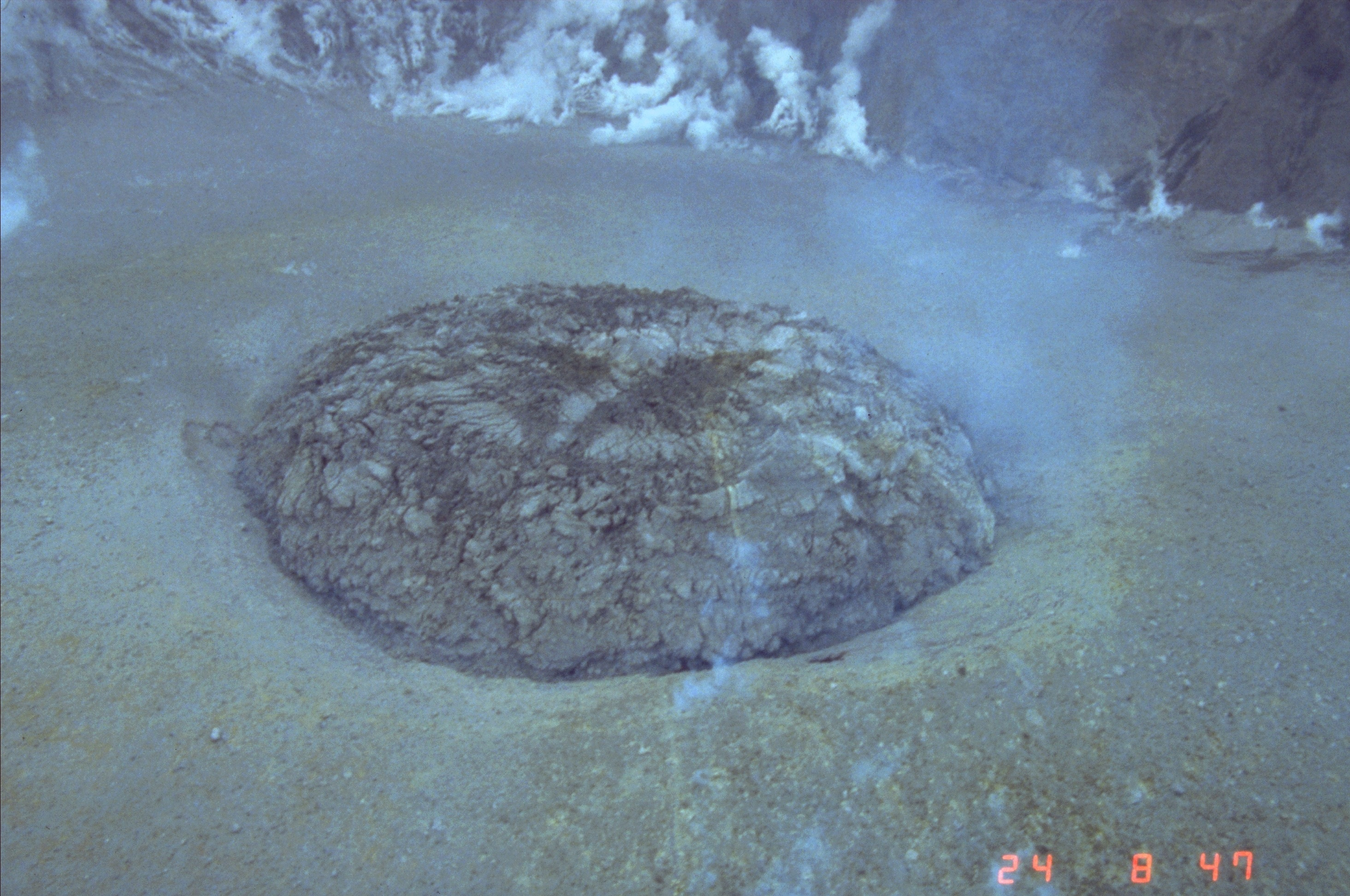 On October 18th, 1980, a third dome started growing at Mount St. Helens. This October dome was 112 feet (34 meters) high and 985 feet (300 meters) wide, making it taller than a nine-story building and wider than the length of three football fields. This aerial view is from the north.